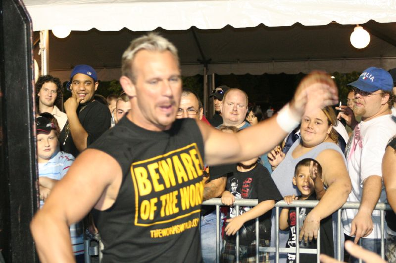 Professional wrestler Scott Garland at a 2CW in August 2008